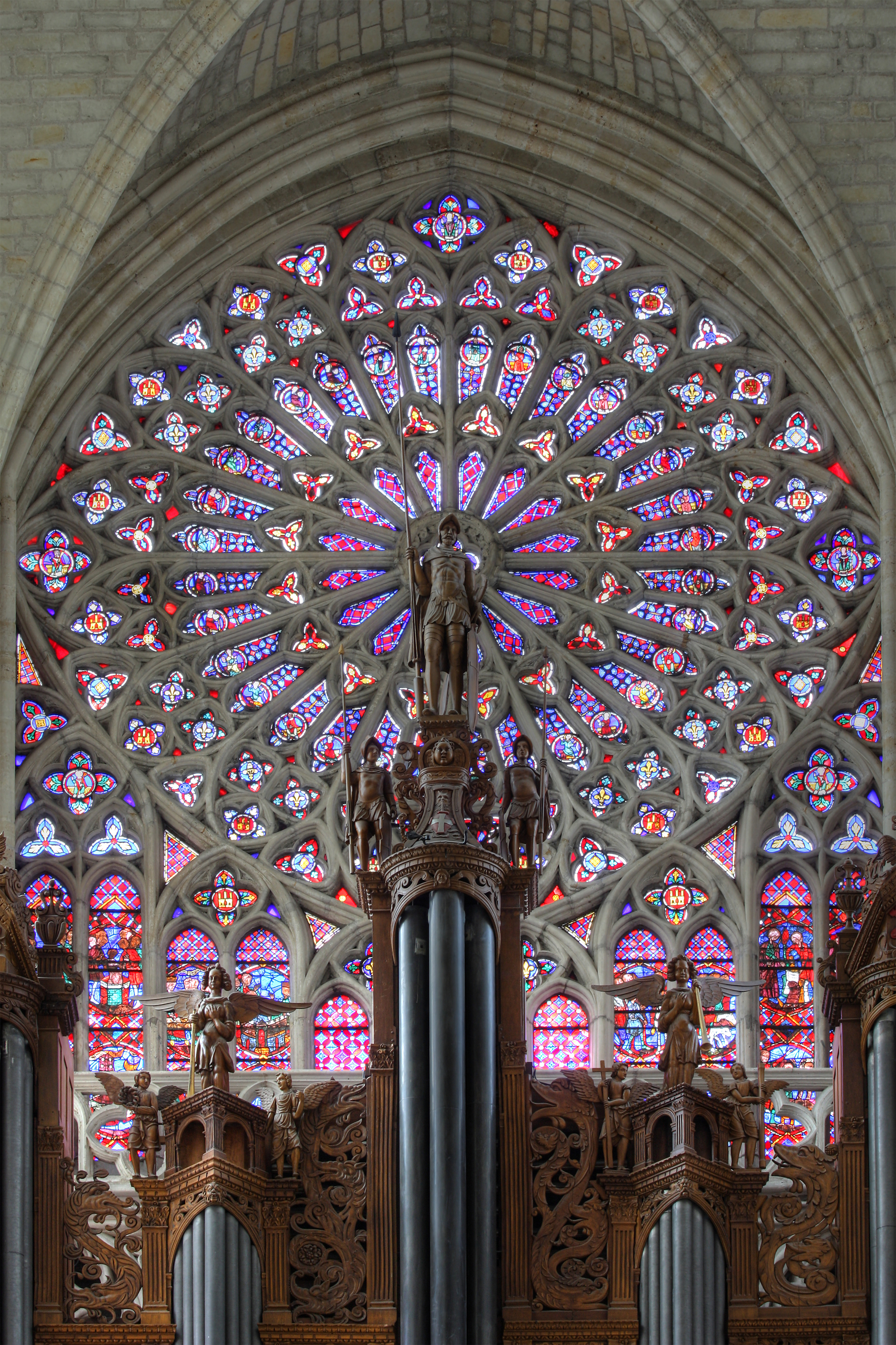 The northern rose window and main organ of Tours Cathedral.